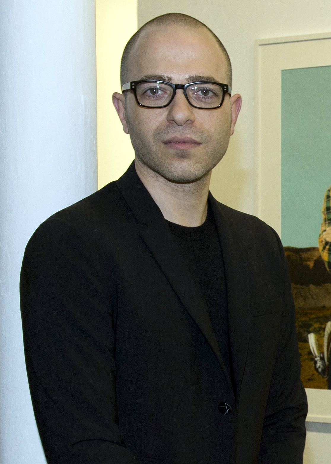 Youssef Nabil at his "I Saved My Belly Dancer" exhibition at Natalie Obadia Gallery.